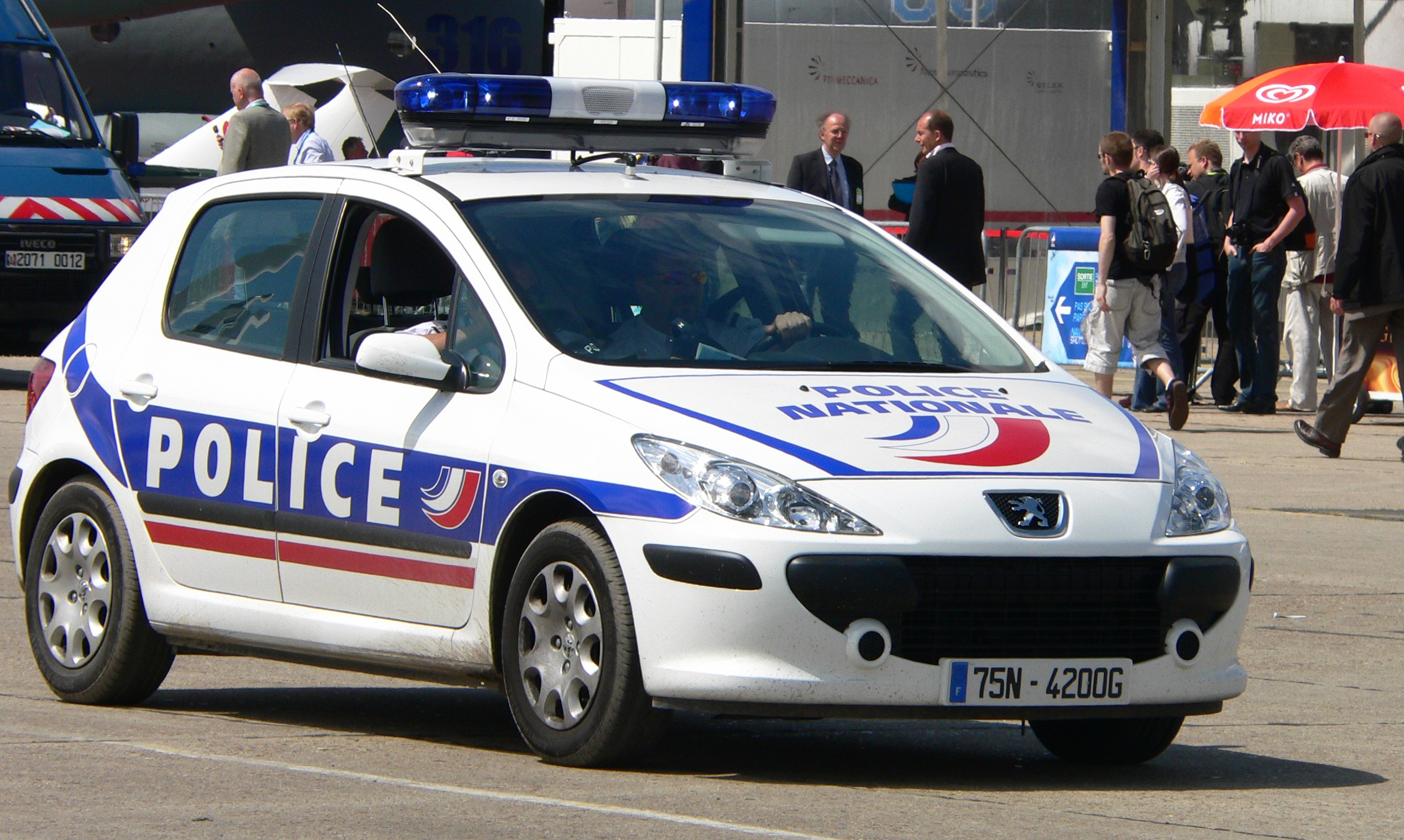 2007 livery for French national police cars